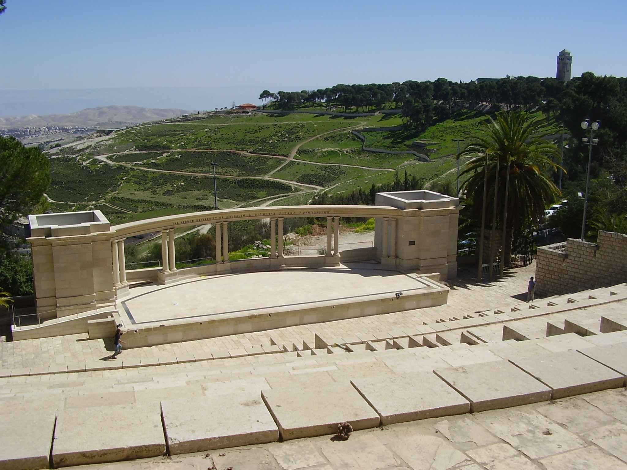 amphitheater in mount scopus